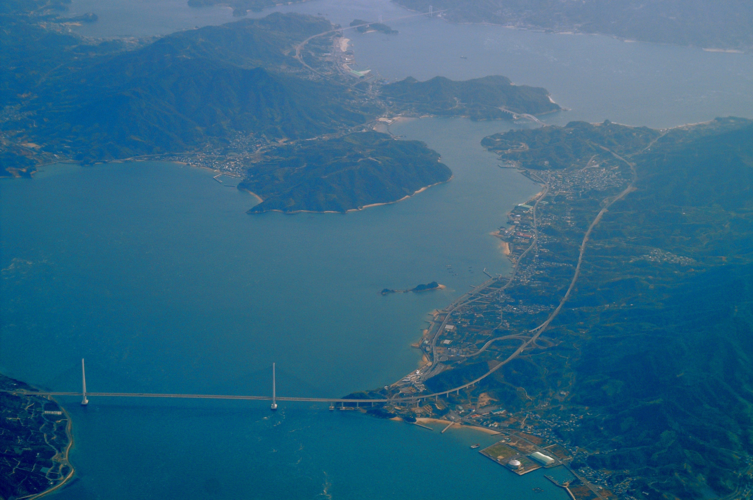 Tatara-Ohashi Bridge